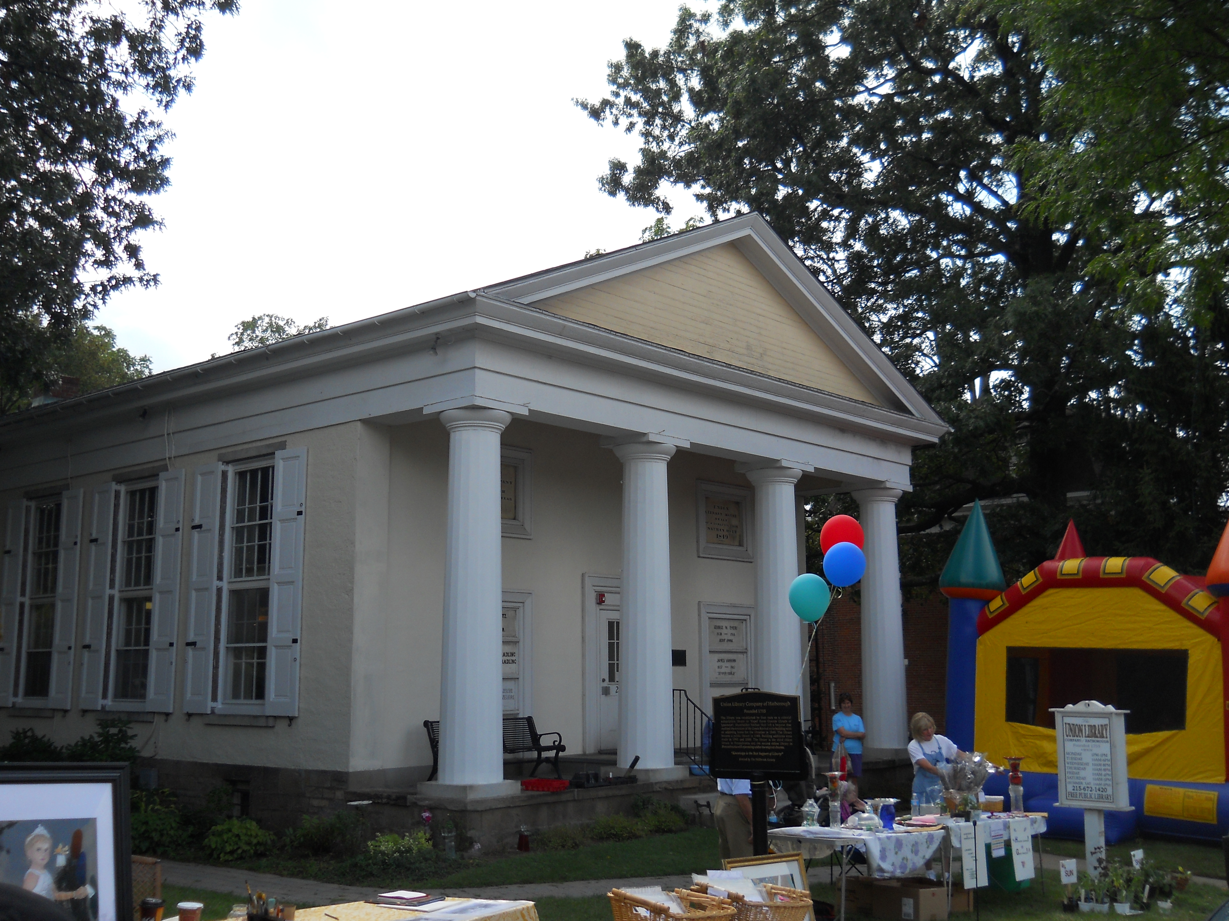 Union Library Company General view from York Rd.